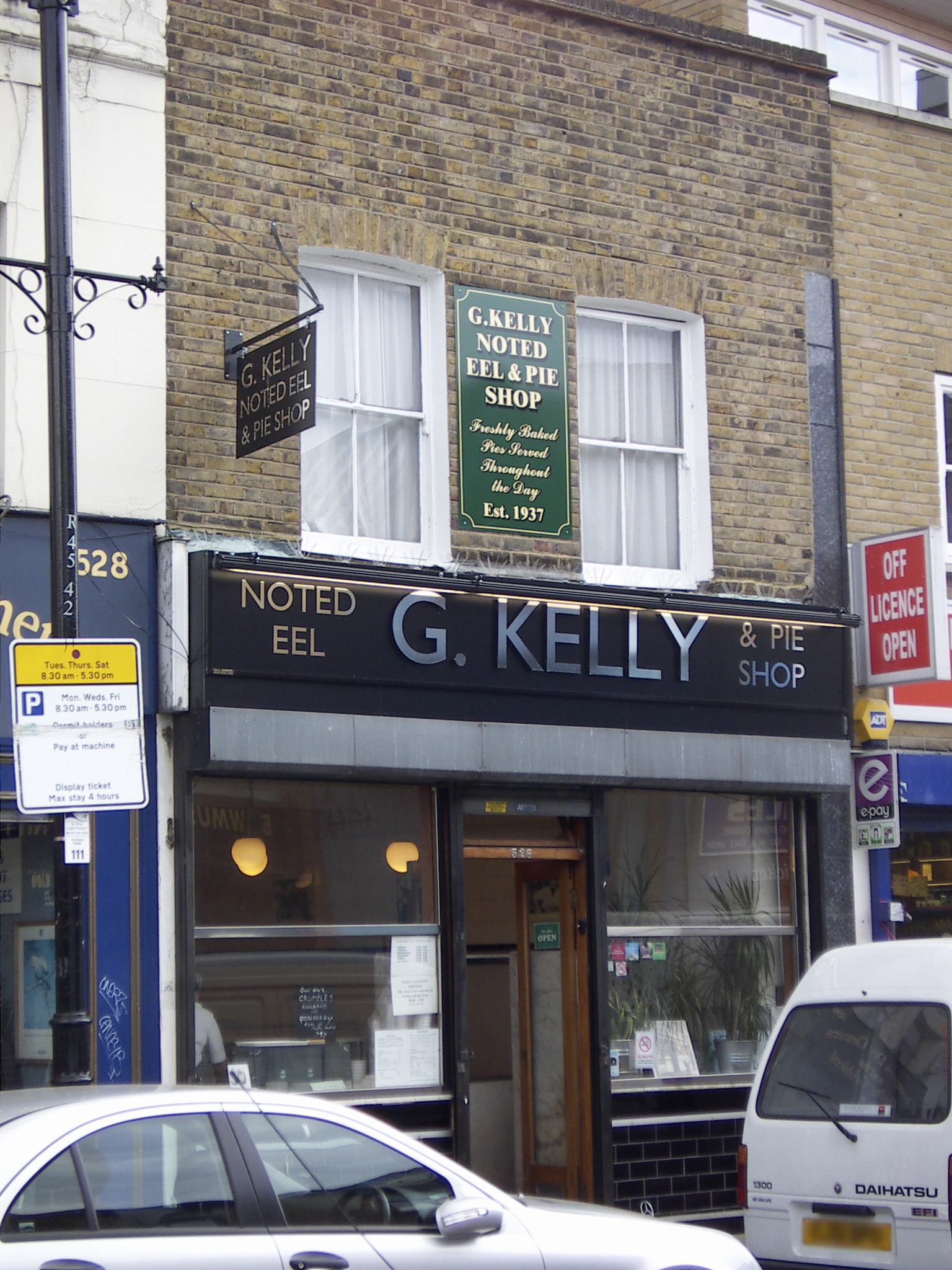 G. Kelly's Eel Pie and Mash shop in Roman Road, Bow E3 5ES, London. An example of a cafe serving pies and mash with parsley liquor and jellied eels, as traditionally found in the East End of London. The uploader has no connection whatsoever to the proprietor.